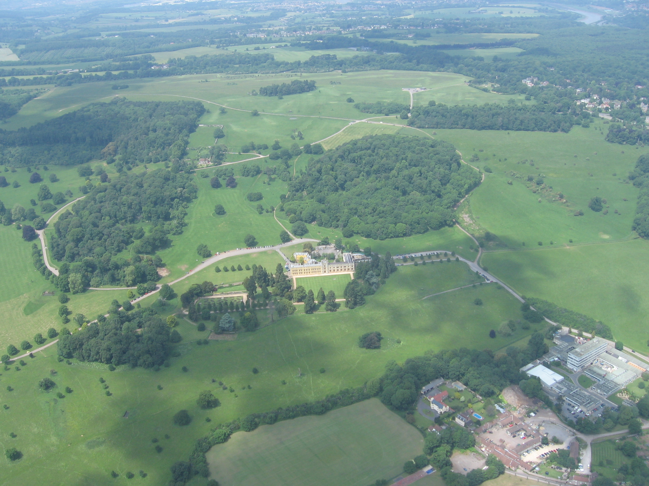 Aerial view of Ashton Court Estate, Bristol, UK. Part of the Ashton UWE campus is visible at the bottom right.